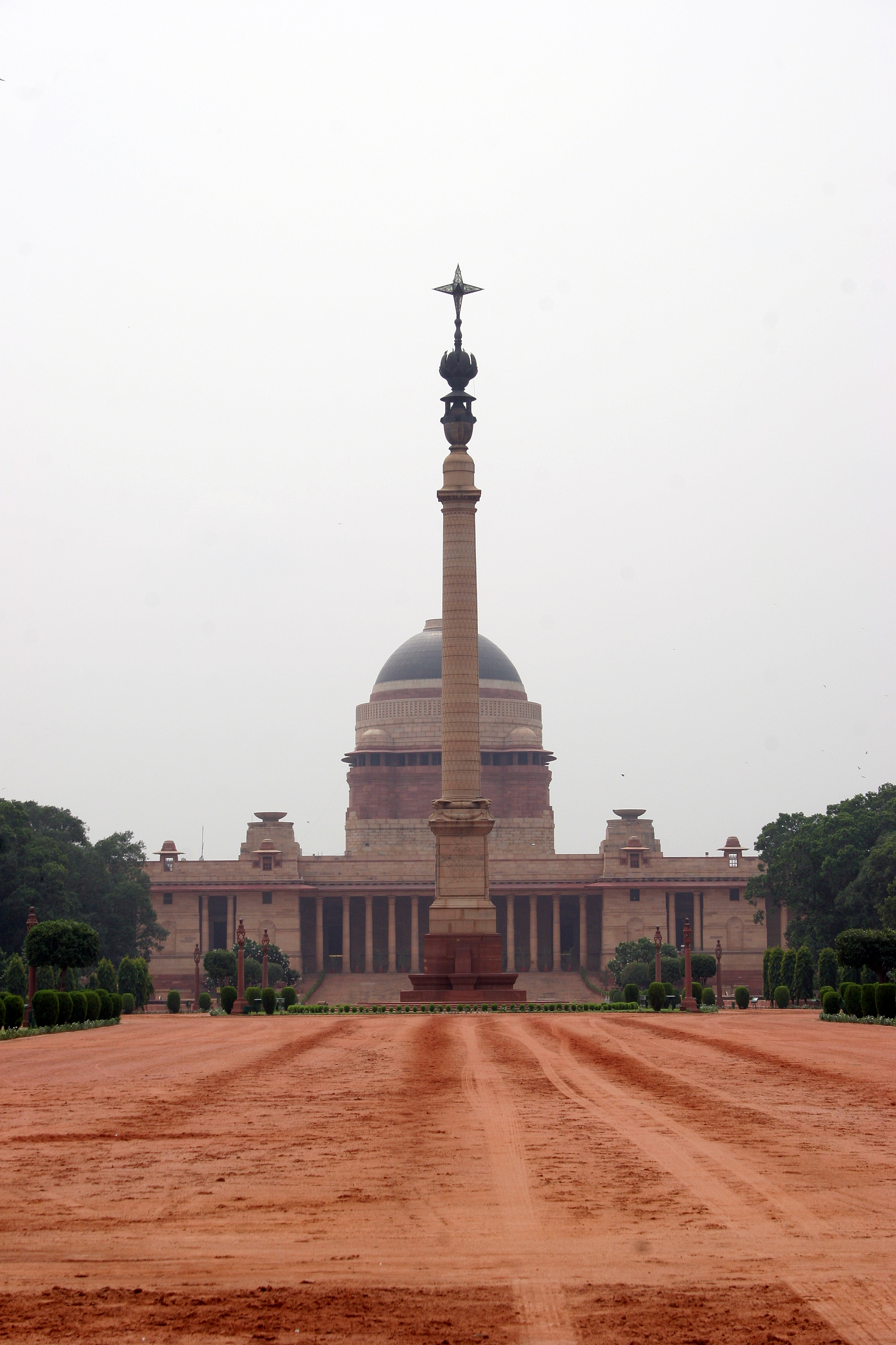 Rashtrapati Bhavan, the presidential palace in New Delhi, India.